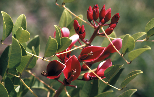 Tree of the coral of the Botanical Garden The Arboreto.